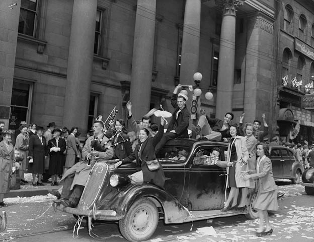 Military personnel and civilians celebrating V-E Day on Sparks Street, Ottawa, Canada